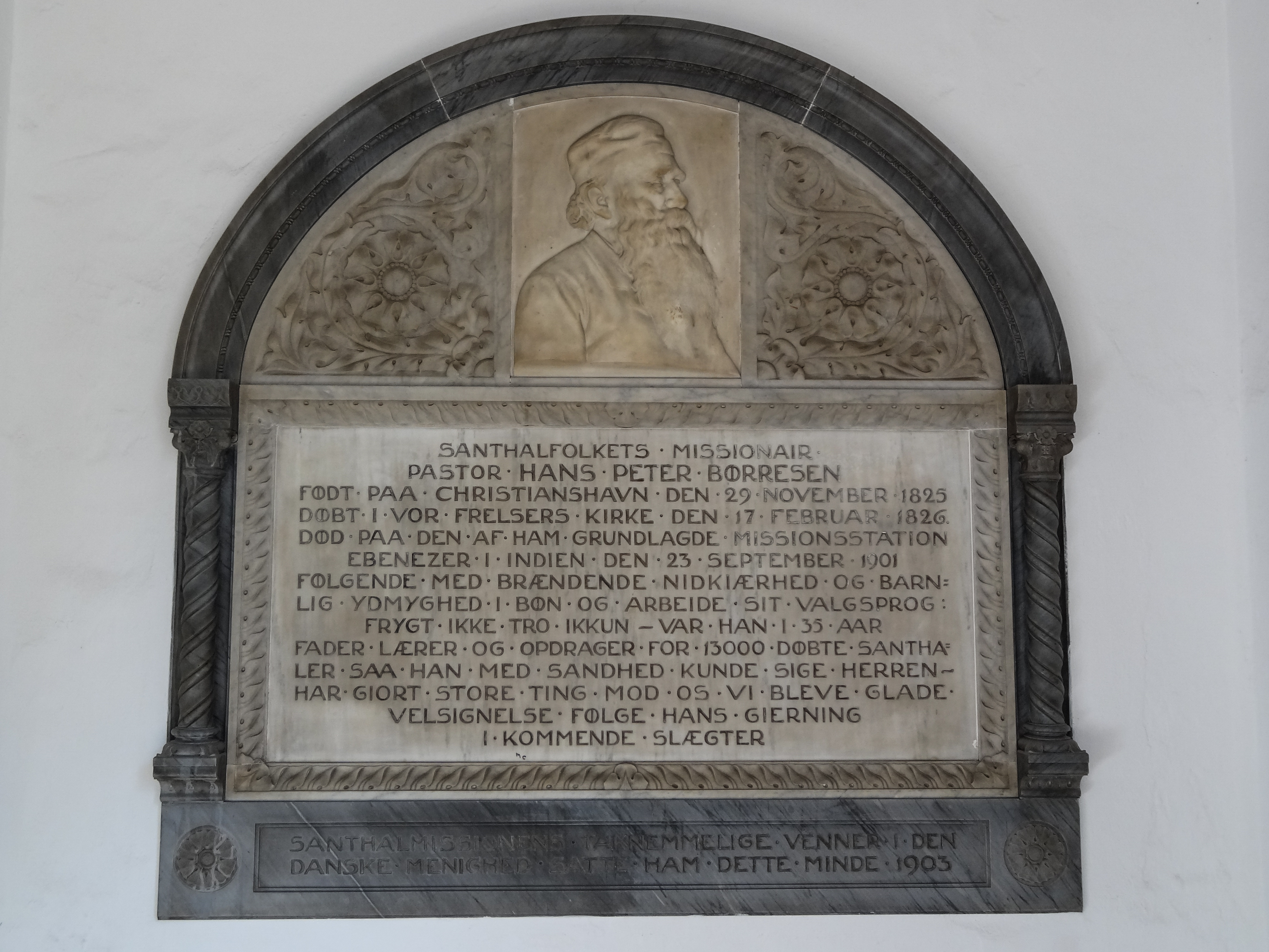 A plaque in Vor Frelsers Kirke in Copenhagen, Denmark